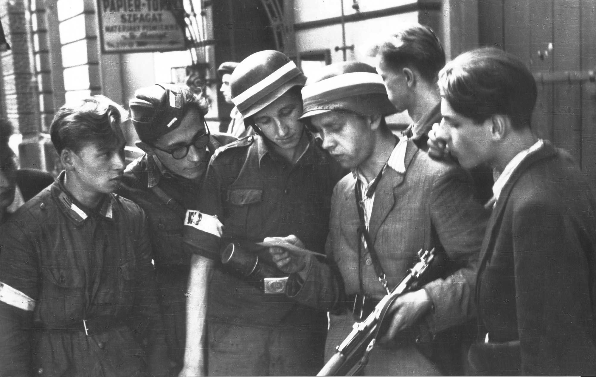 WarsawUprising: Insurgents Kompania "Koszta" read a pamphlet from General von dem Bach asking for their surrender on the corner of Sienkiewicza and Marszałkowska streets. Second from the left is Tadeusz Suliński "Radwan" (in glases) next to him in the helmet Andrzej Główczewski "Marek".